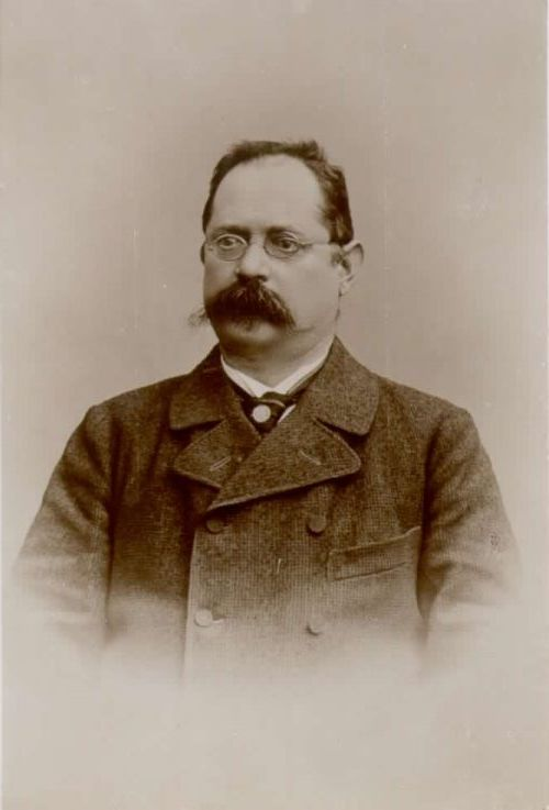 Simon Rutar (1851-1903), Slovene historian, geographer and archaeologist.